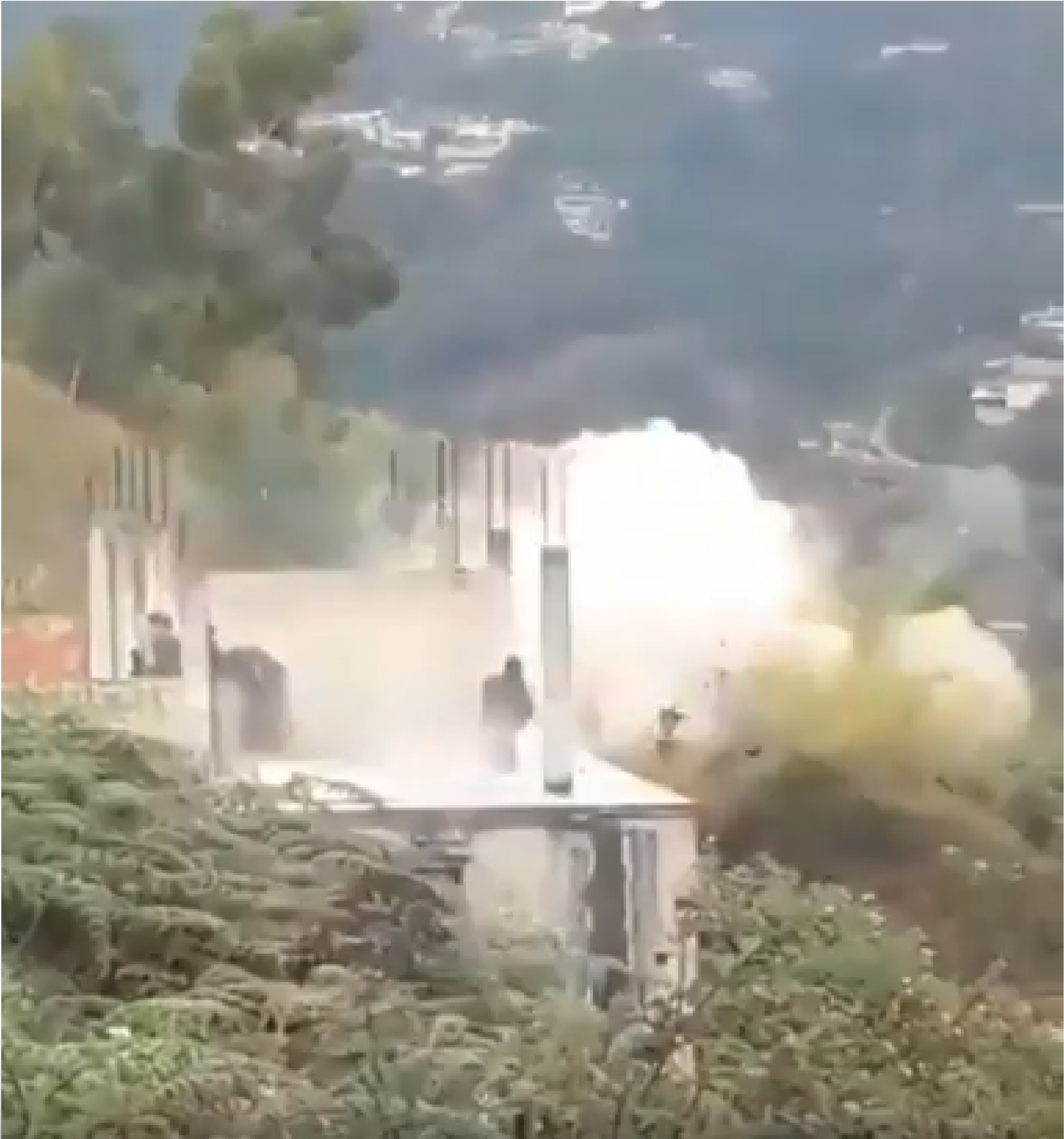 Within the framework of Operation Gideon. Exact moment of the bombing against Oscar Alberto Pérez.